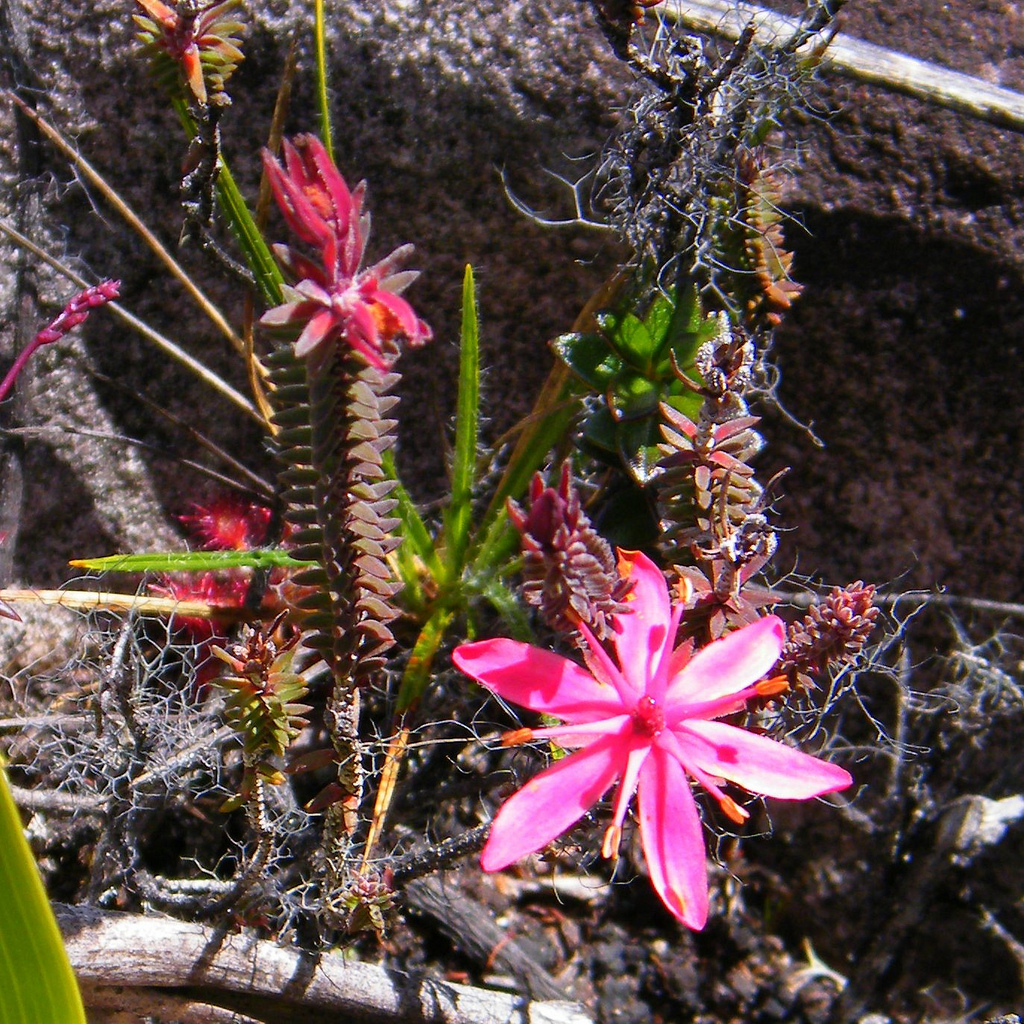 Plant of Mount Roraima, Venezuela